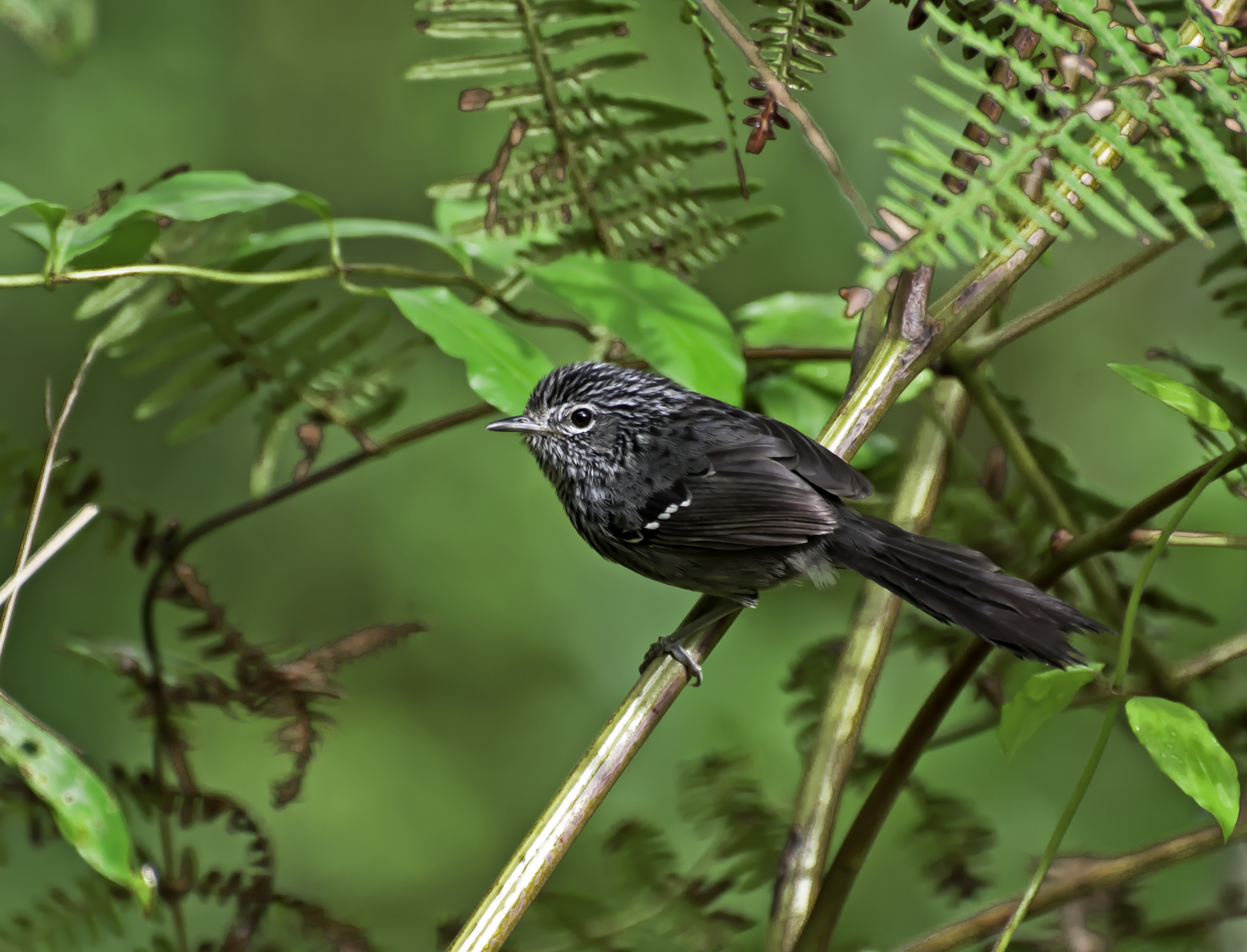 A Drymophila malura in Reserva Guainumbi, São Luis do Paraitinga, São Paulo, Brazil.